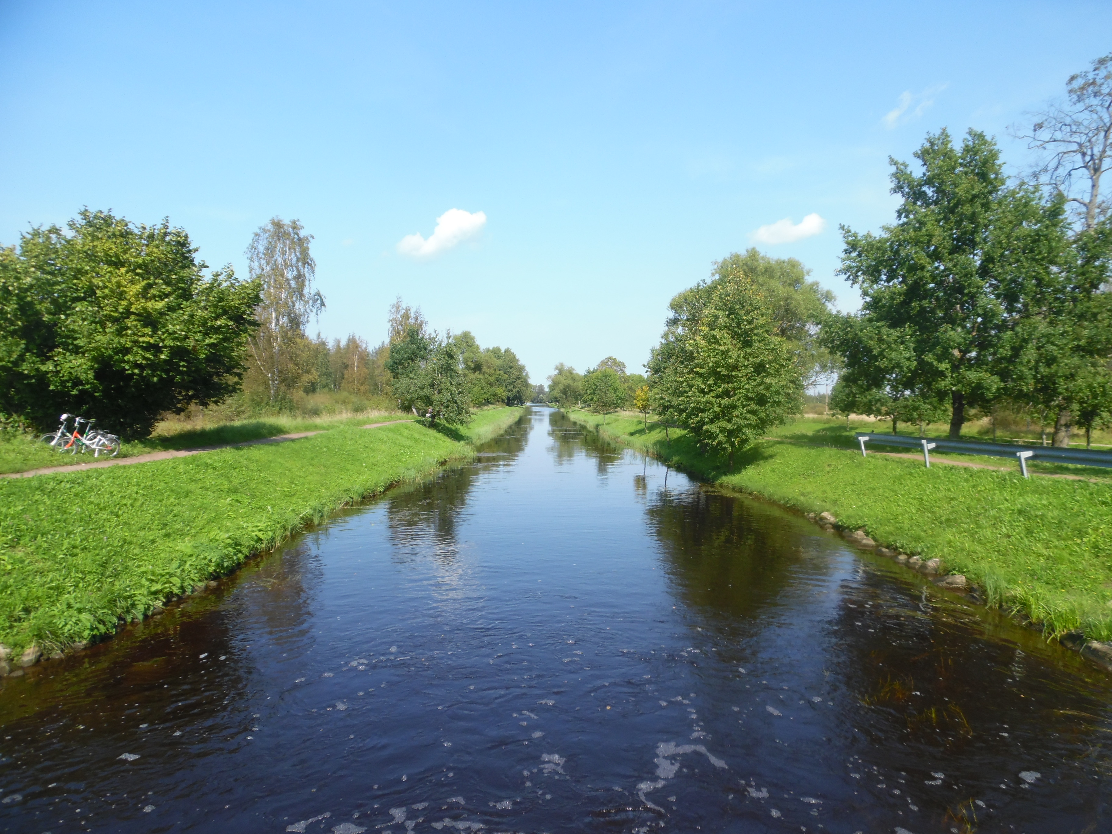 Peterhof, Lugovoj park 9